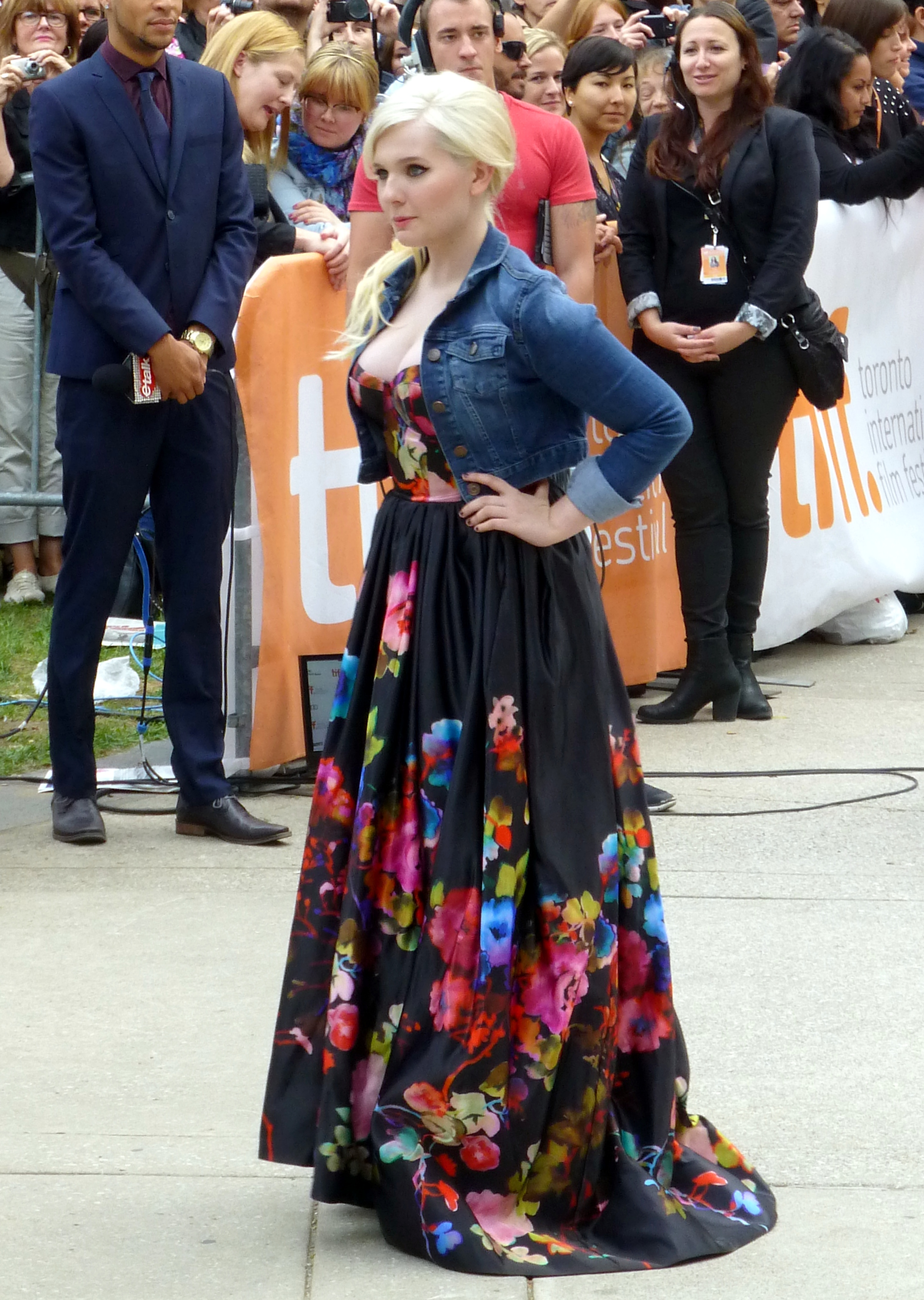 Abigail Breslin at the premiere of August: Osage County, Toronto Film Festival 2013